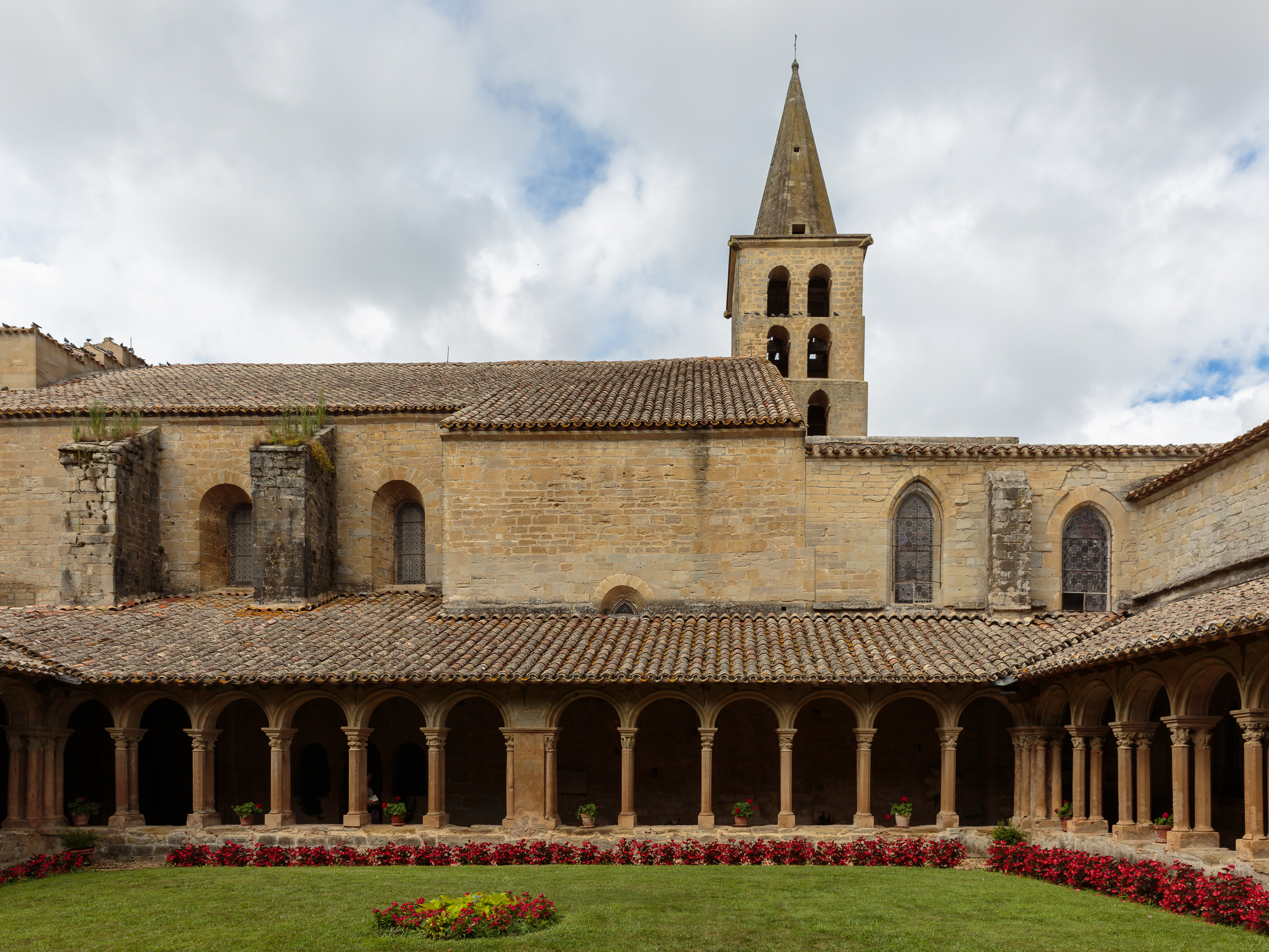 Cloister of the Abbey of Saint-Papoul.